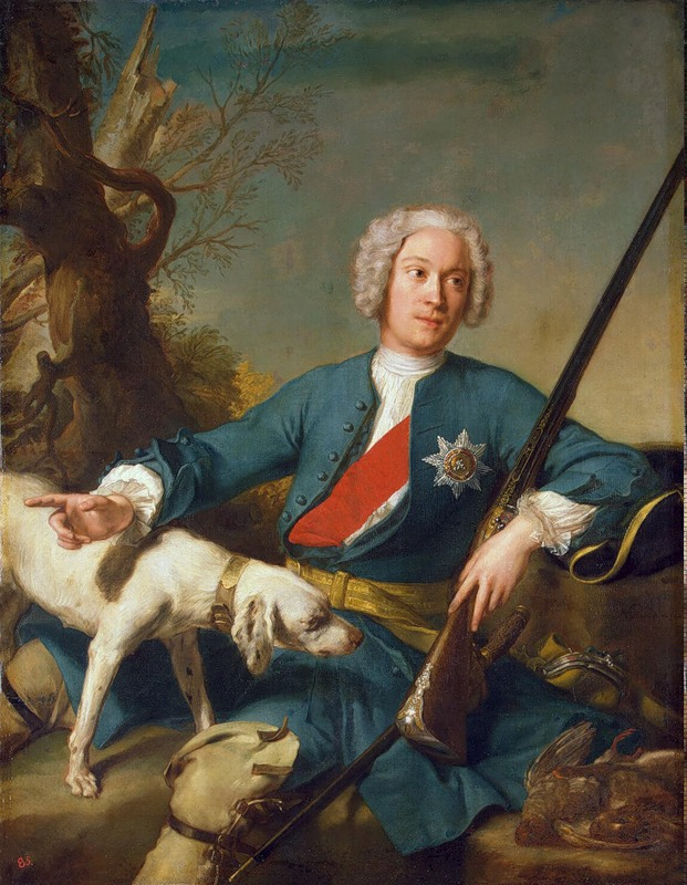 Portrait of Alexander Kurakin